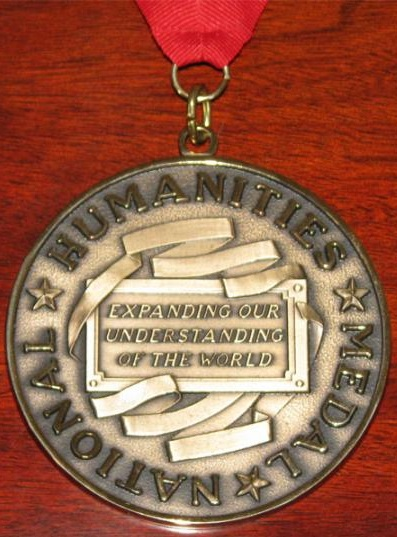 The obverse of the National Humanities Medal